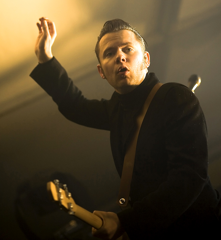 Hooverphonic @ Breendonk 2008